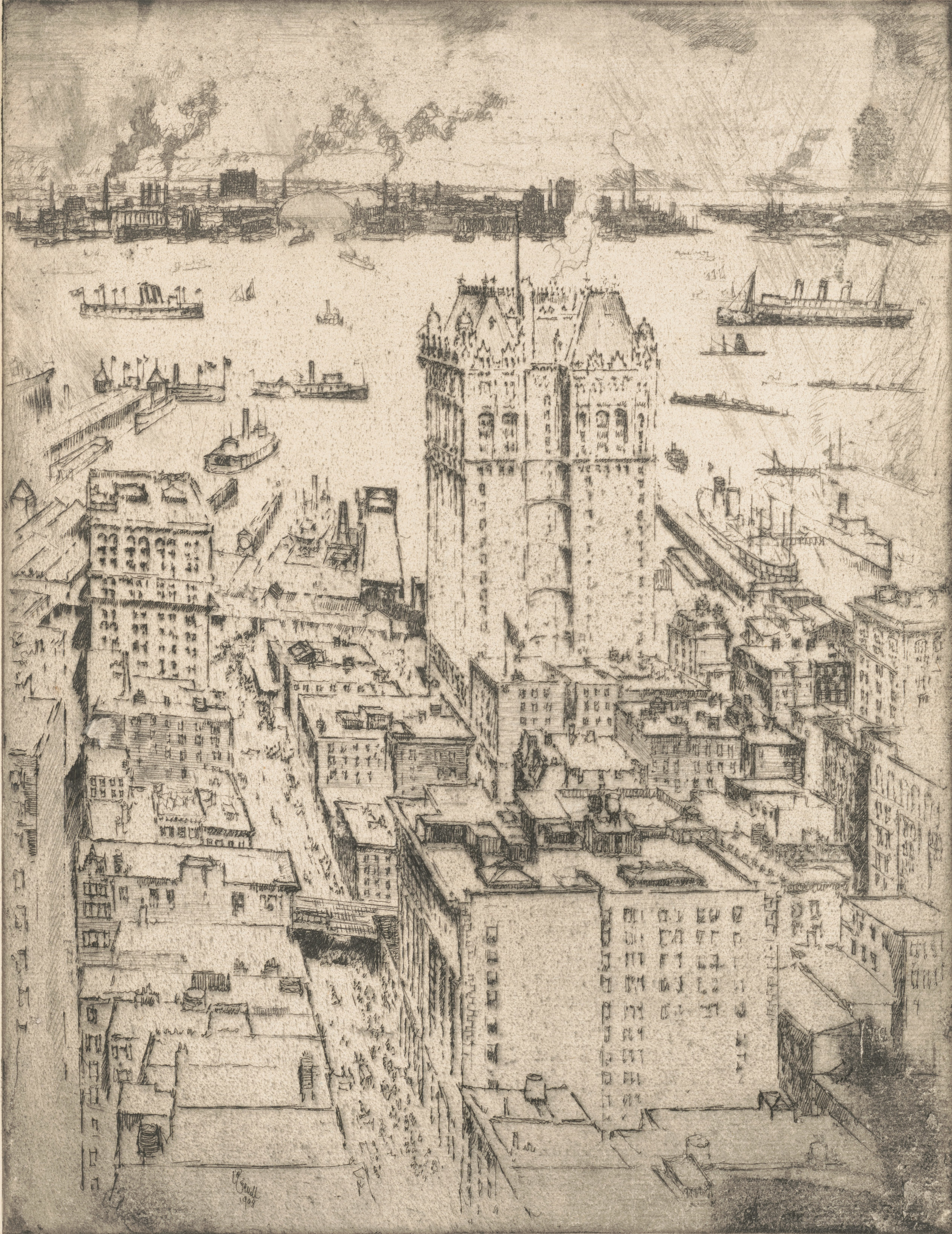 Title: West Street building Abstract/medium: 1 print : etching ; 27.7 x 21.4 cm.